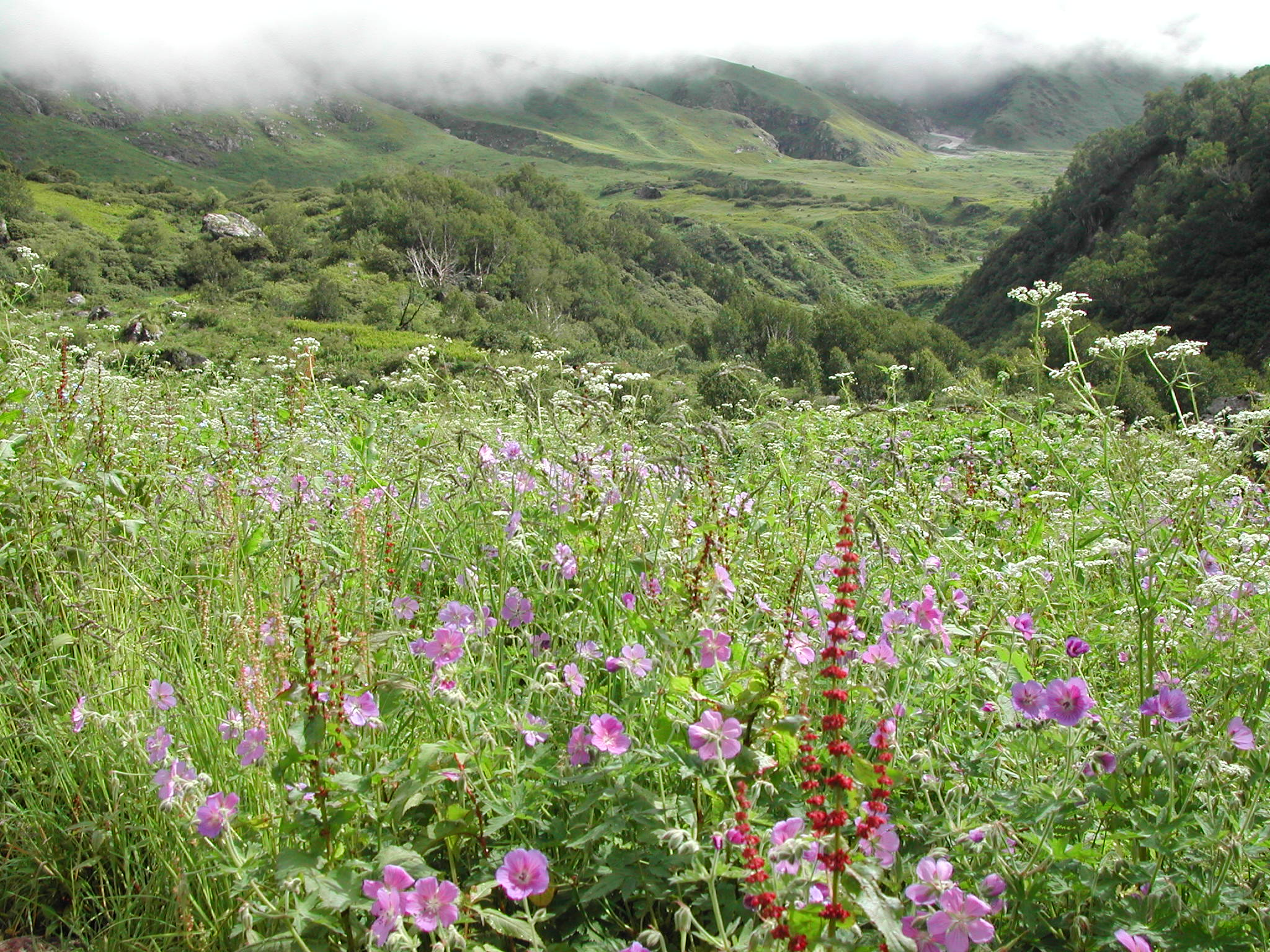 A panoramic view of the Valley of flowers during monsoon season